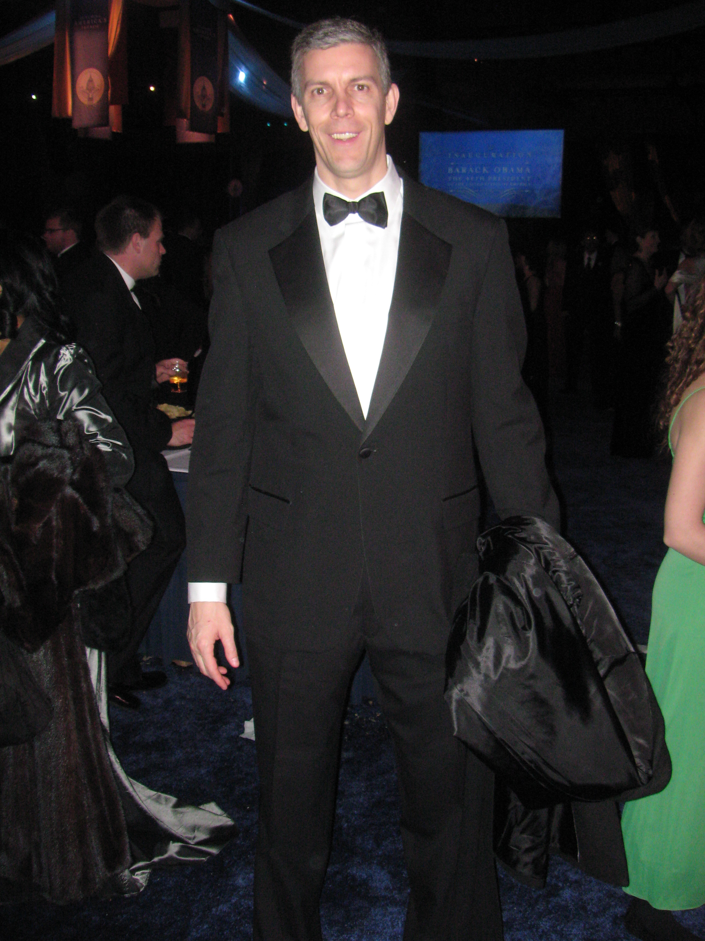 Arne Duncan at 2009 Obama Home States Inauguration Ball